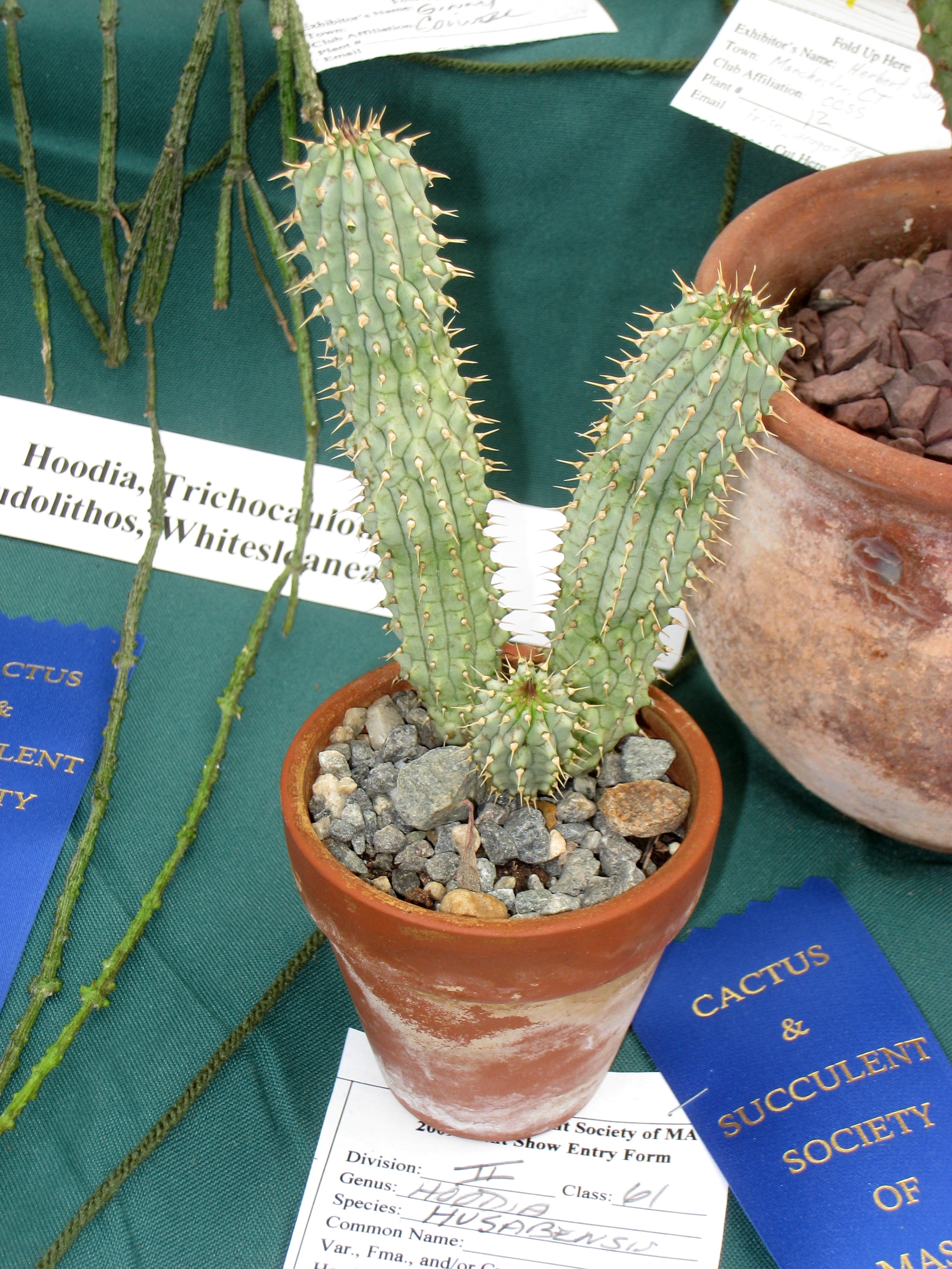 Hoodia husabensis, in the Tower Hill Botanic Garden, Boylston, Massachusetts, USA.